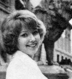 Photo of radio personality Connie Szerszen from a 1976 WIND (AM) survey.